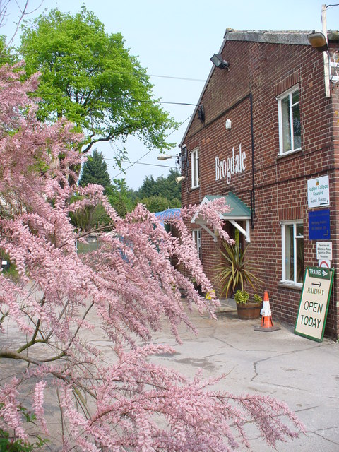 Brogdale Entrance building to the National Fruit Centre, near Faversham.